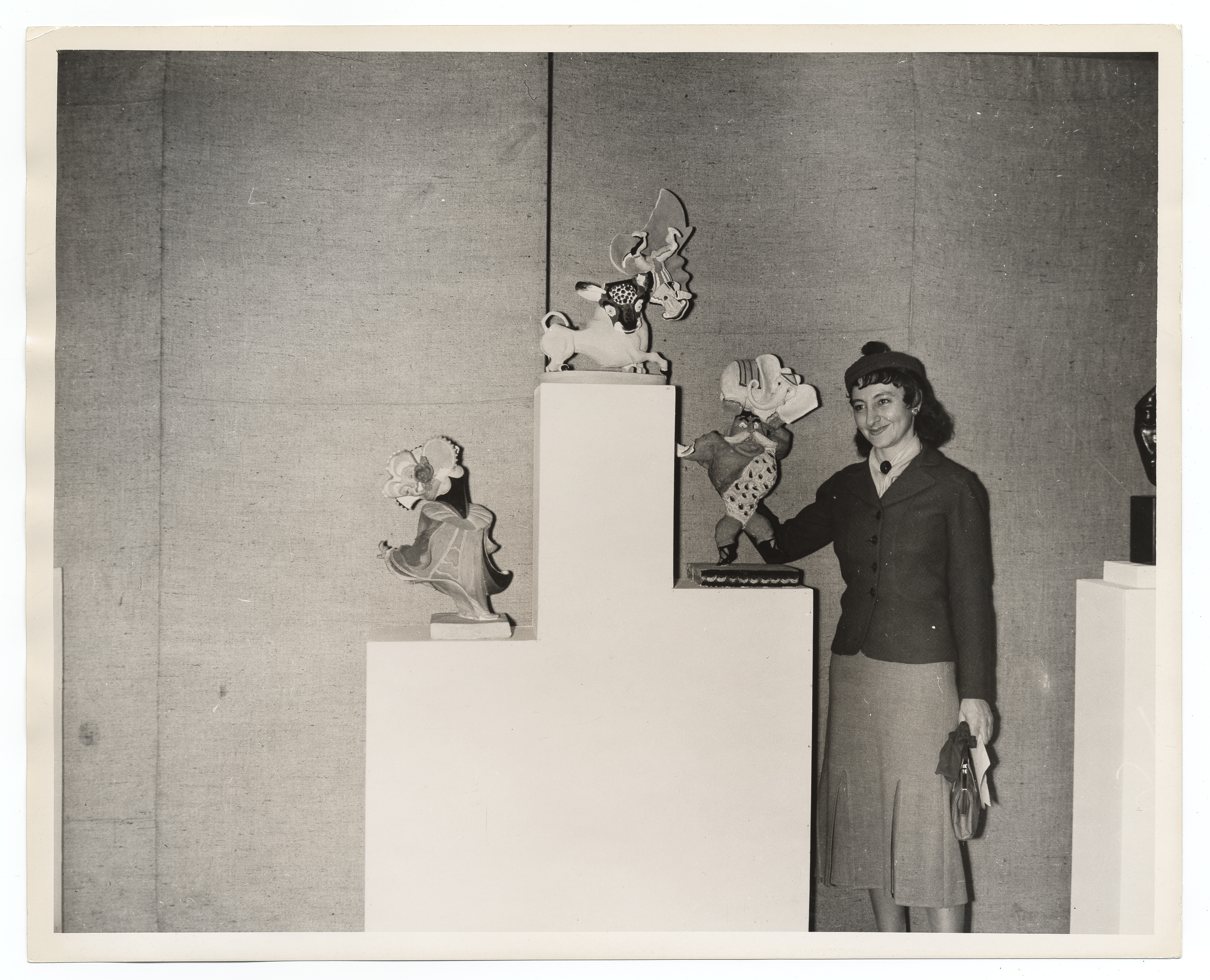 Gershoy with her animal sculptures at a gallery exhibit.Identification on verso (handwritten and stamped): Federal Art Project W.P.A.; Photographic Division; 215 East 42nd Street; New York City Opening of Gallery Exhibit, 225 W. 57 St.; Date: 3/12/38; Negative No: 2853-4; Photographer: Horn.